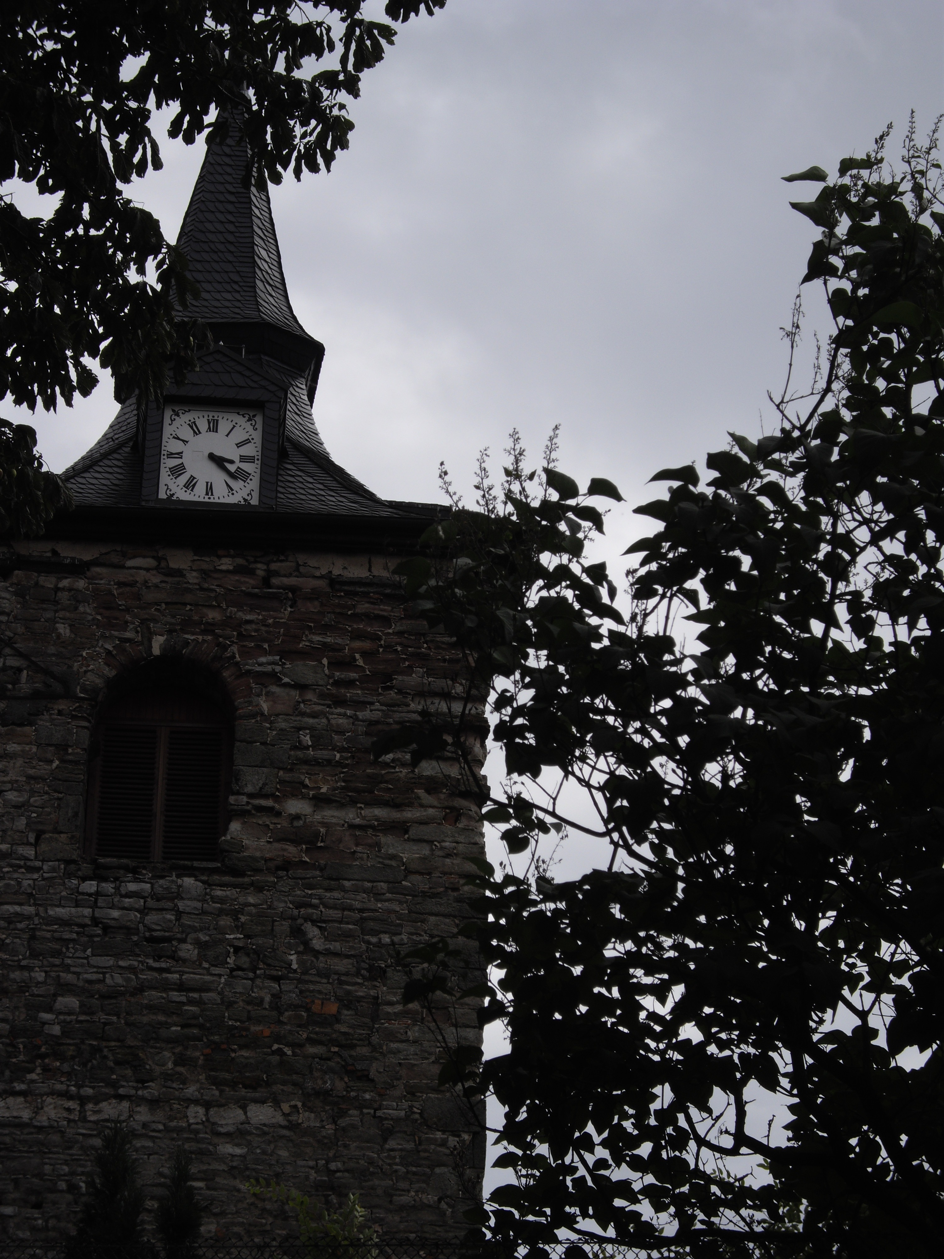 tower of the church St.Andreas in Siersleben, Germany